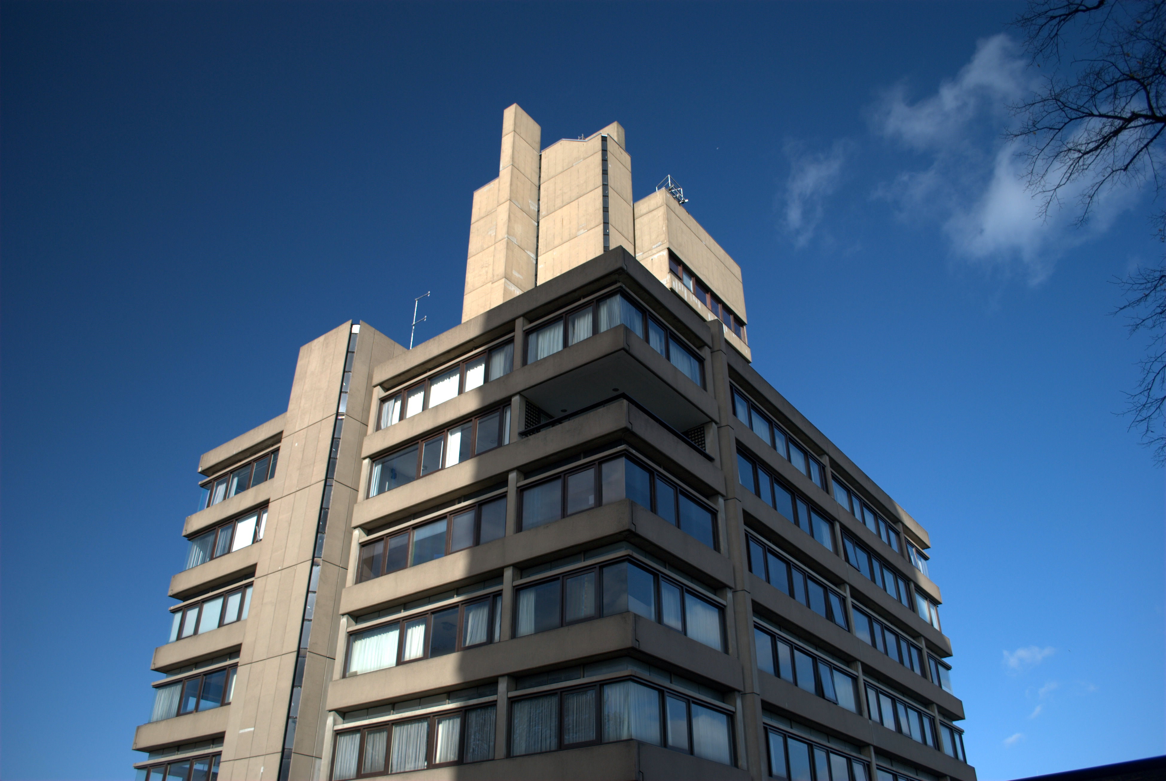 The Charles Wilson Building (designed by Denys Lasdun) at the University of Leicester. The raw concrete is clearly visible in this photograph.